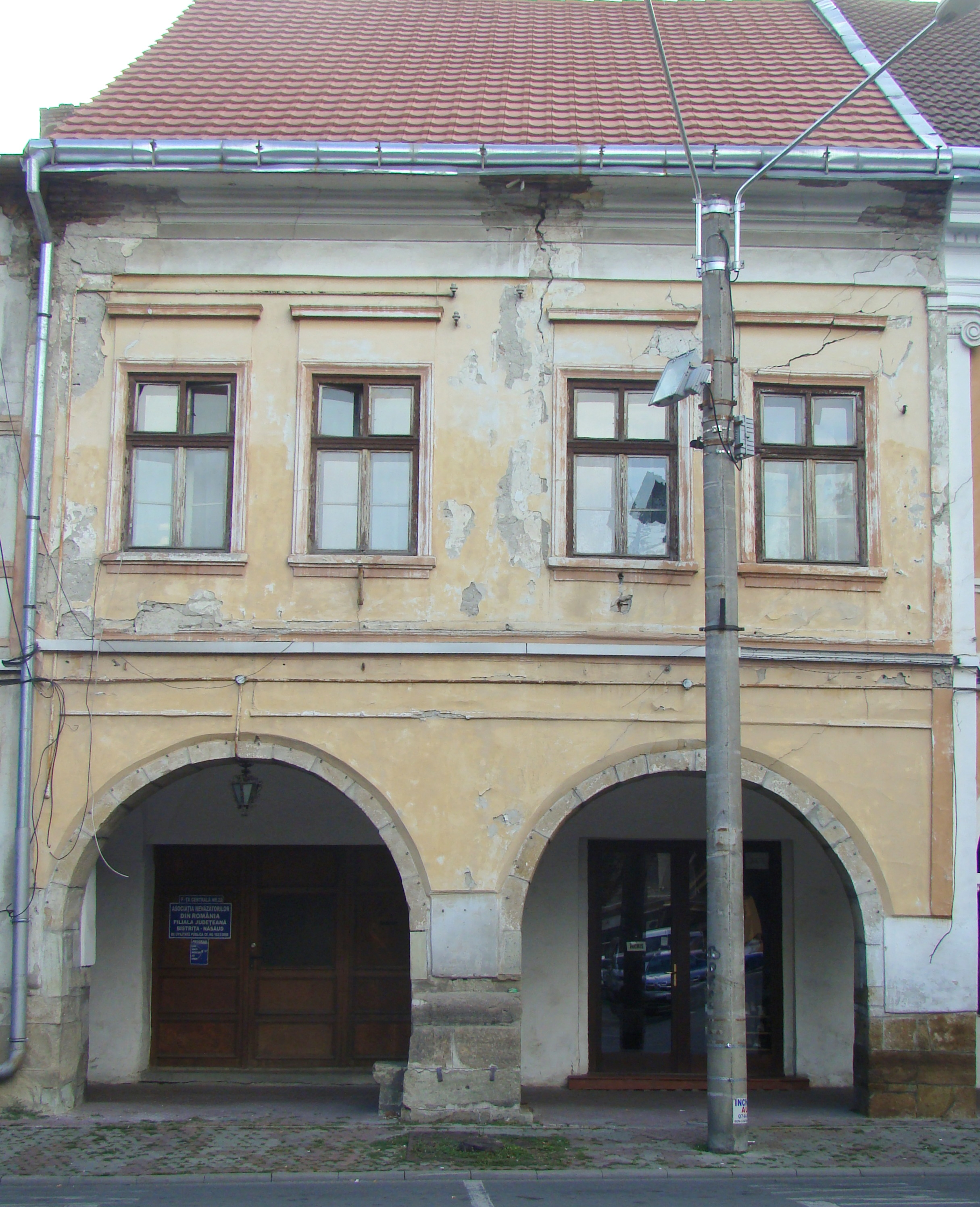 Houses, historic monuments, in Bistrița, Piața Centrală 13-24